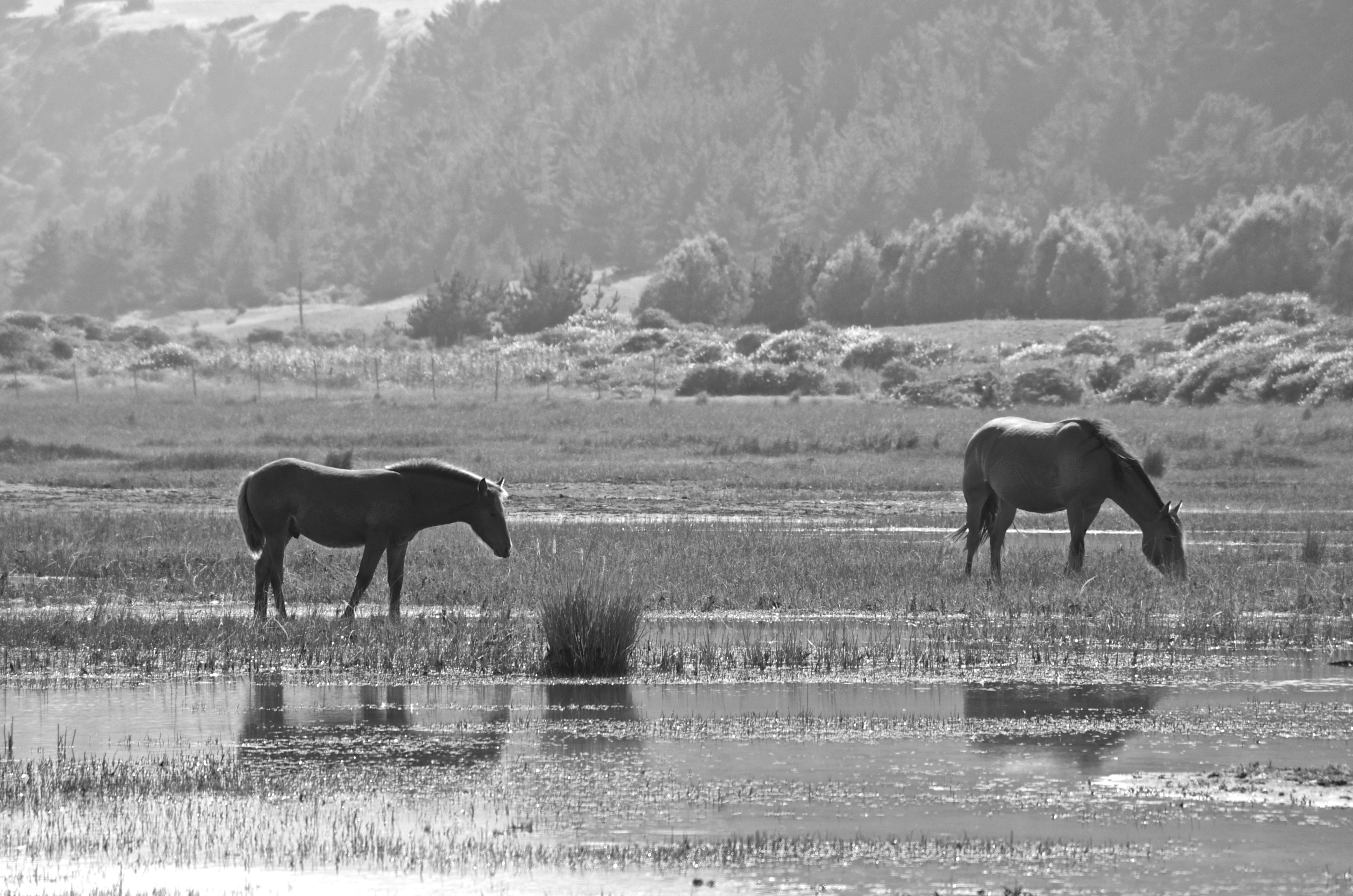 Putú, Chile